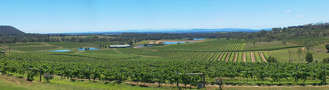 Hunter Valley Panorama, mfunnell, stitched from separate shots by the author on 19NOV2005. From memory, the shots were taken from near the Audrey Wilkinson winery.